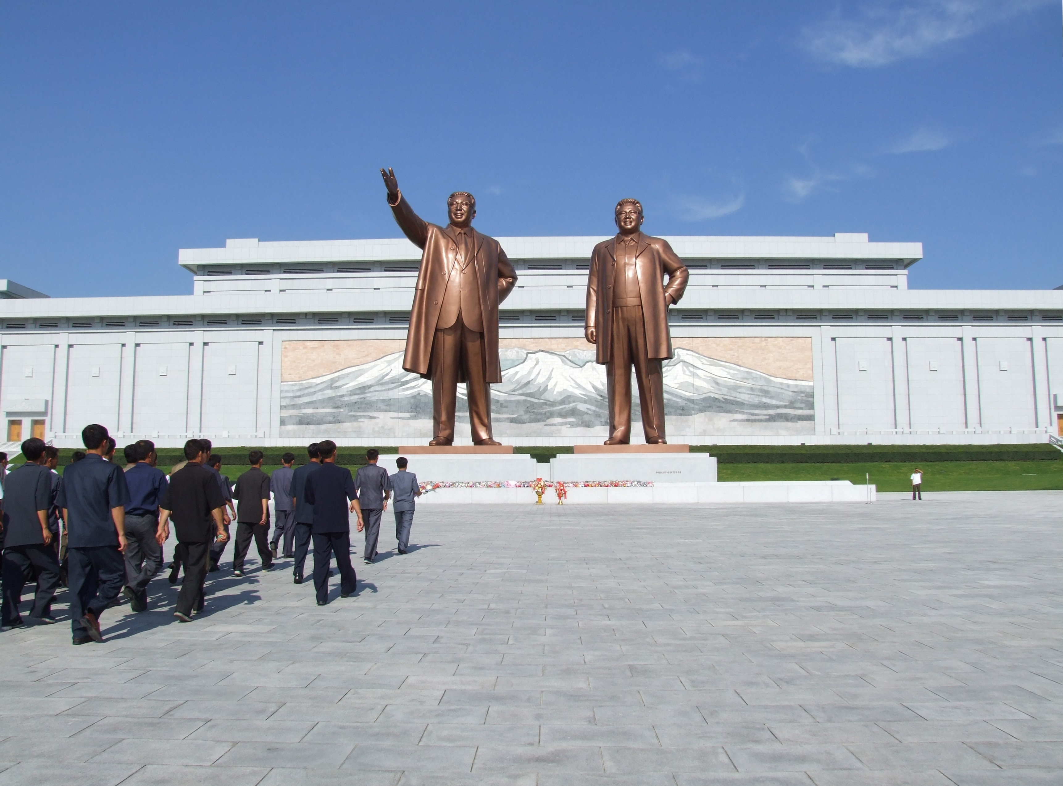 Mansudae Grand Monument